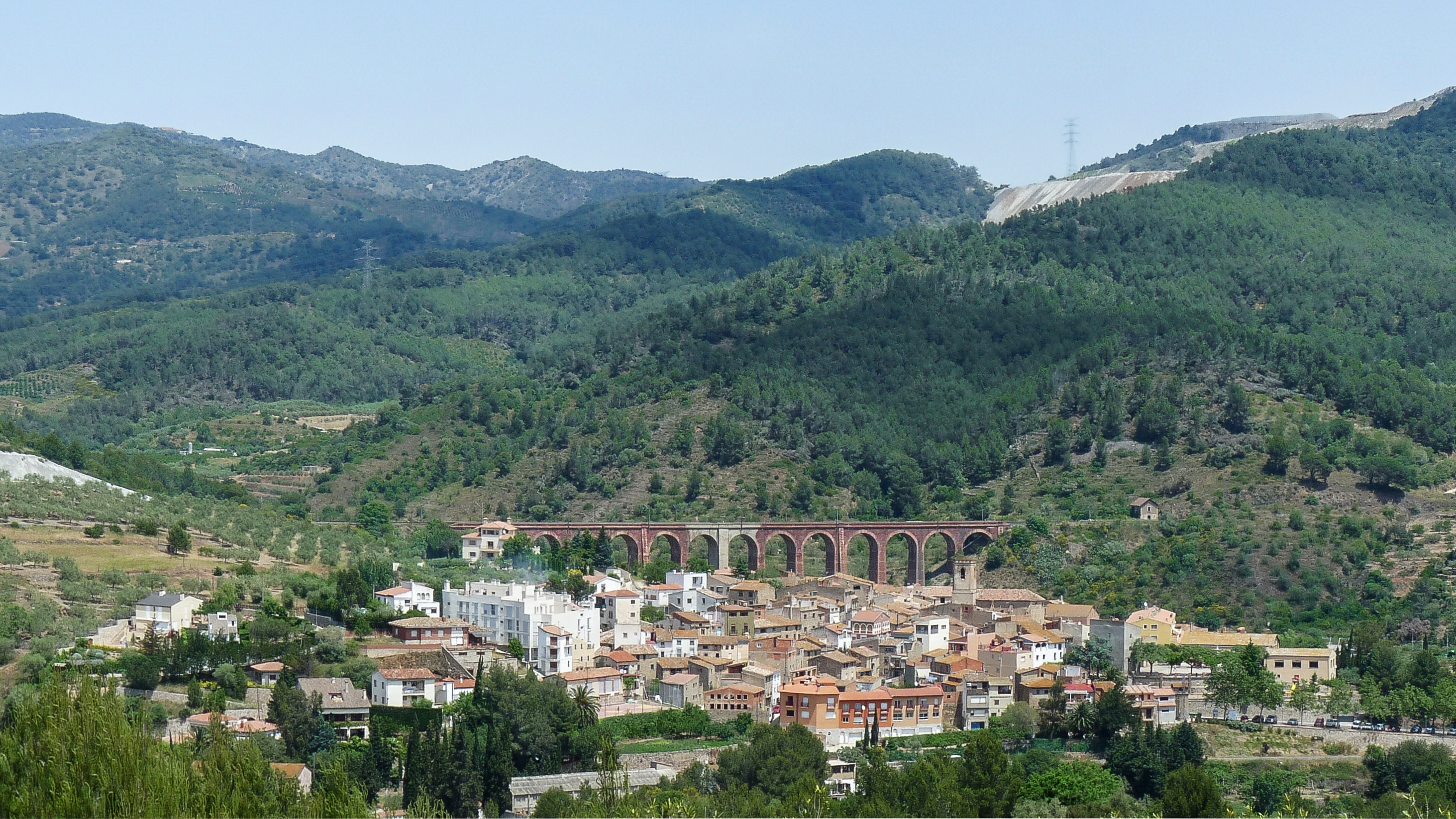 Duesaigües